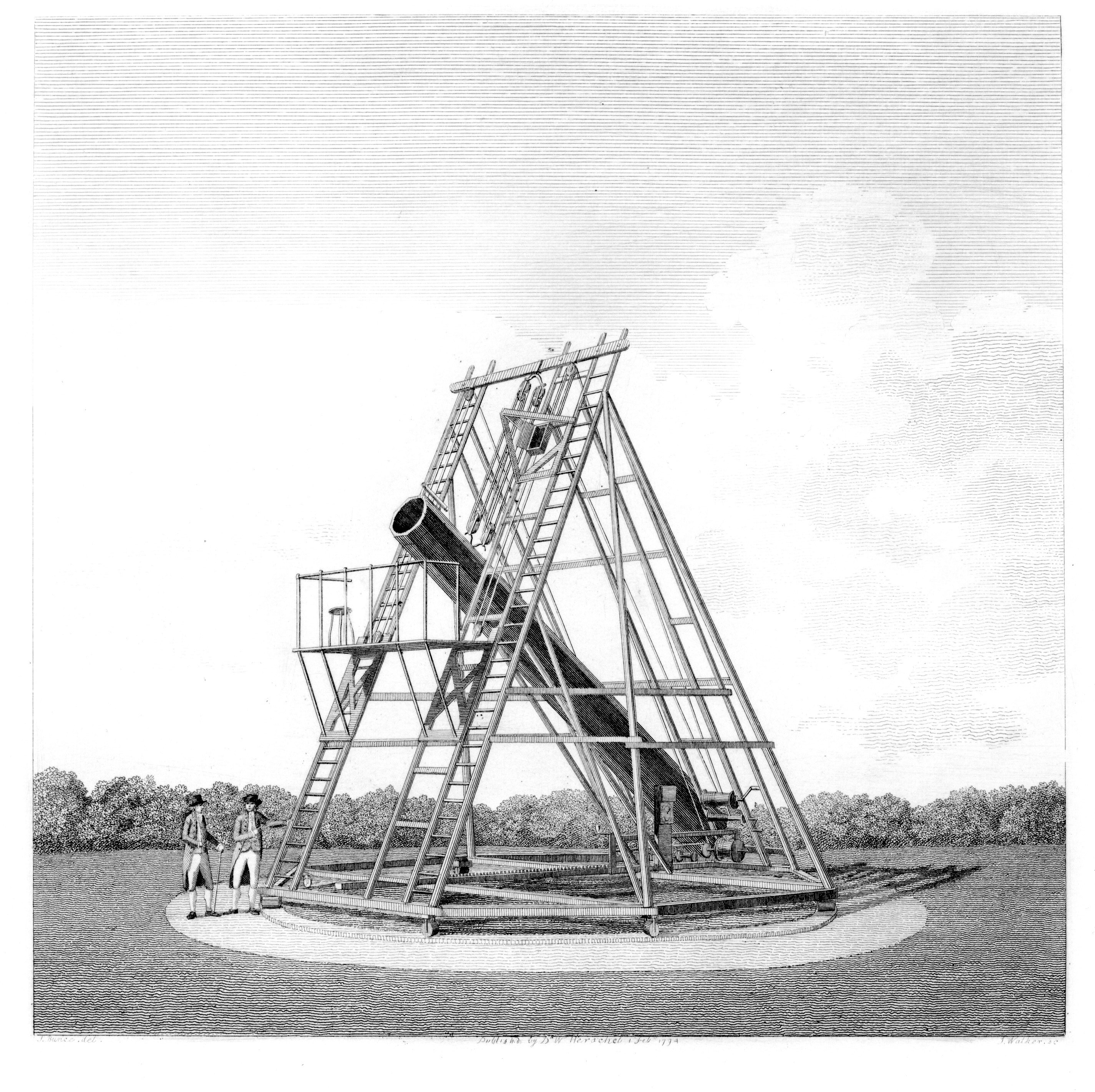 Print of the twenty-foot reflecting telescope of William Herschel, published 1794.